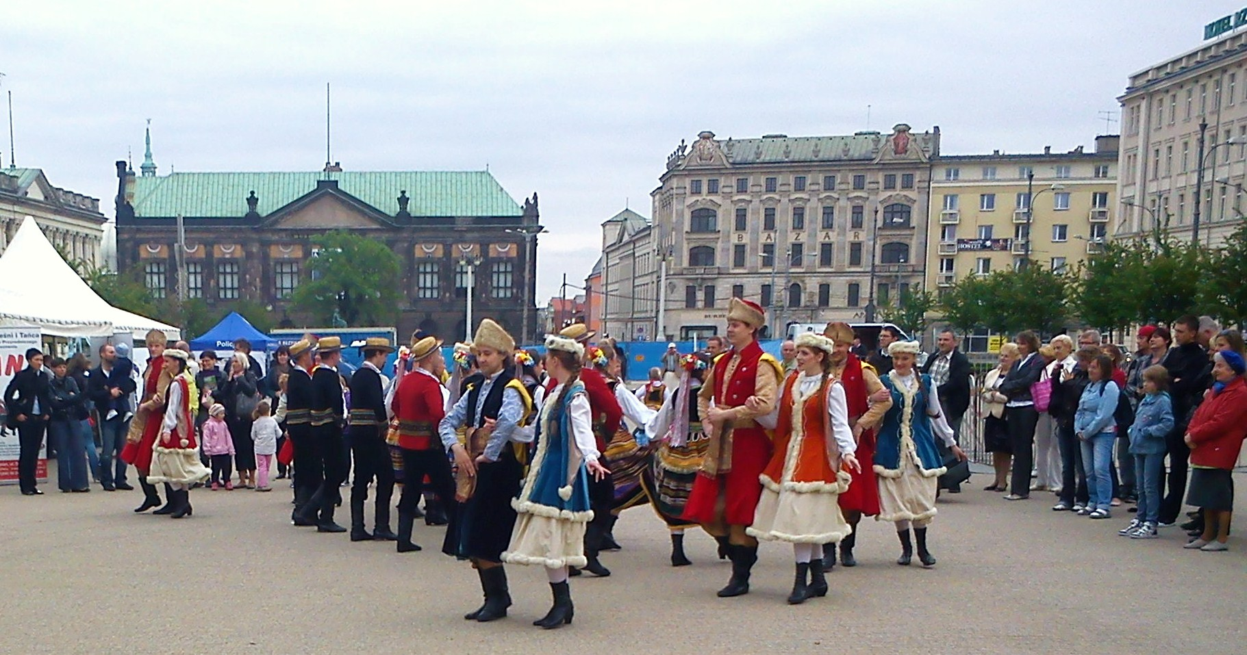 Lany - Musical Ensamble of Poznan.